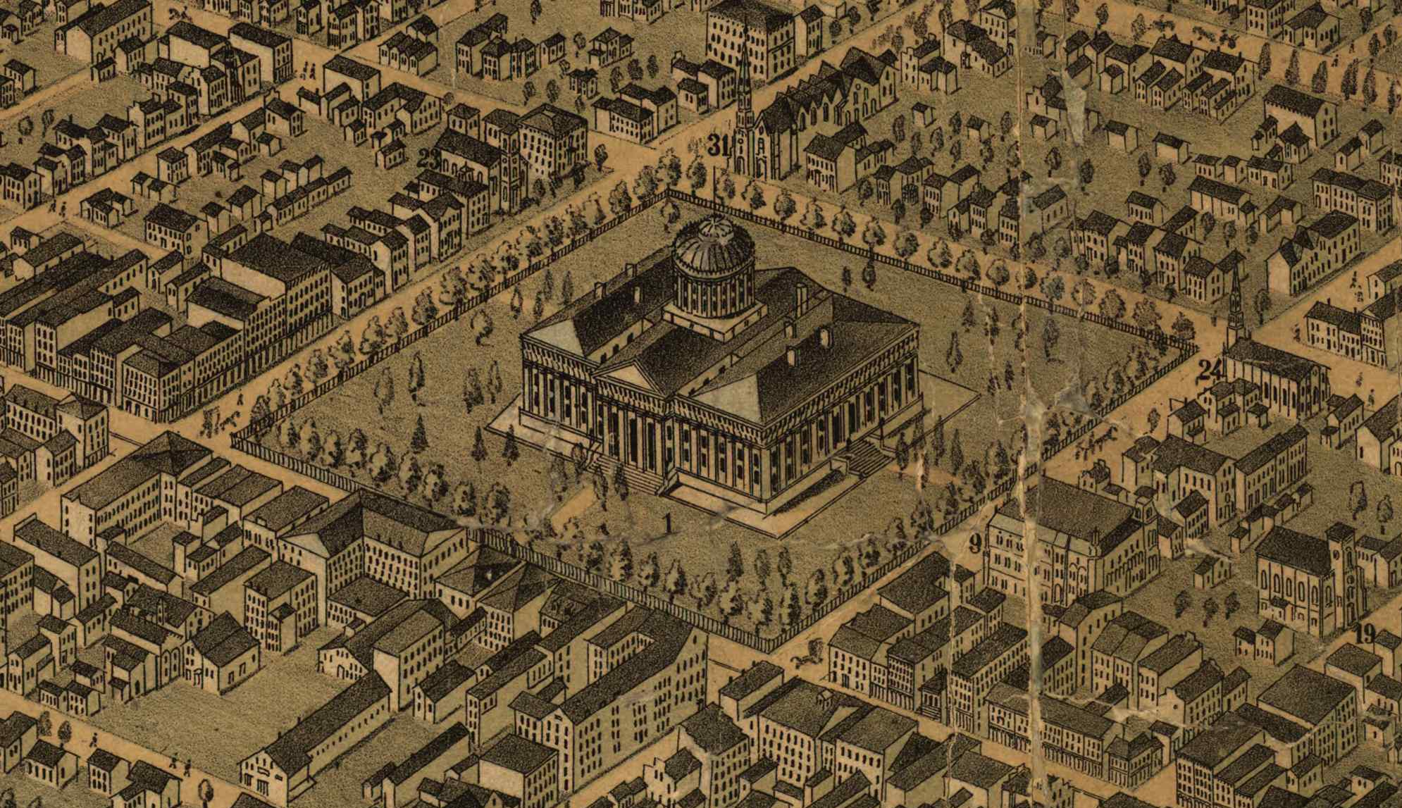 Birds eye view of Columbus, Ohio / drawn by H.H. & O.H. Bailey. Bailey, H. H. 1836-1878. (Howard Heston), [Milwaukee, Wis.?] : Fowler & Bailey, 1872 (Cincinnati, O. : Strobridge & Co. Lith.)